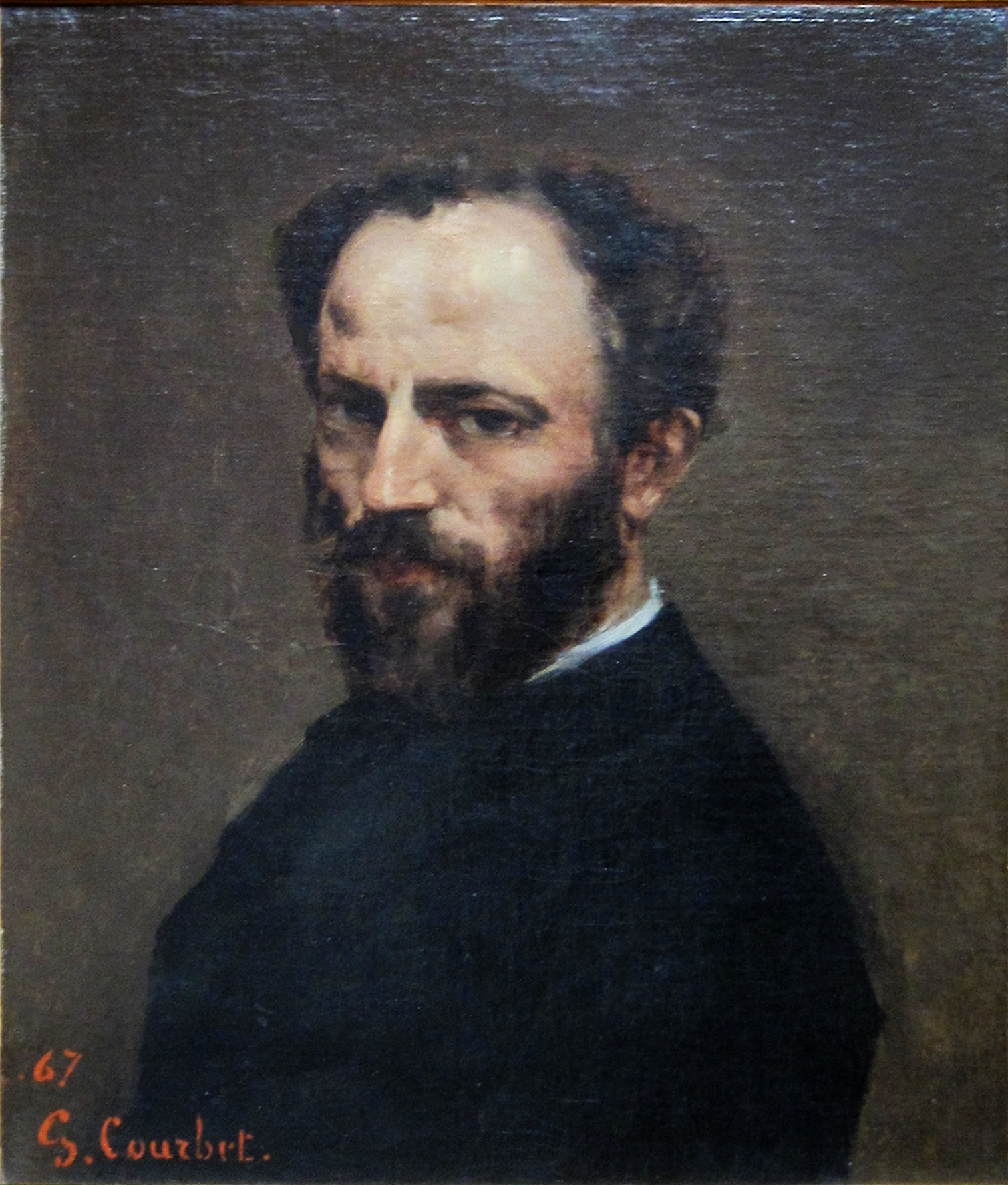 Portrait of Amand Gautier (1825-1894), painter[1]